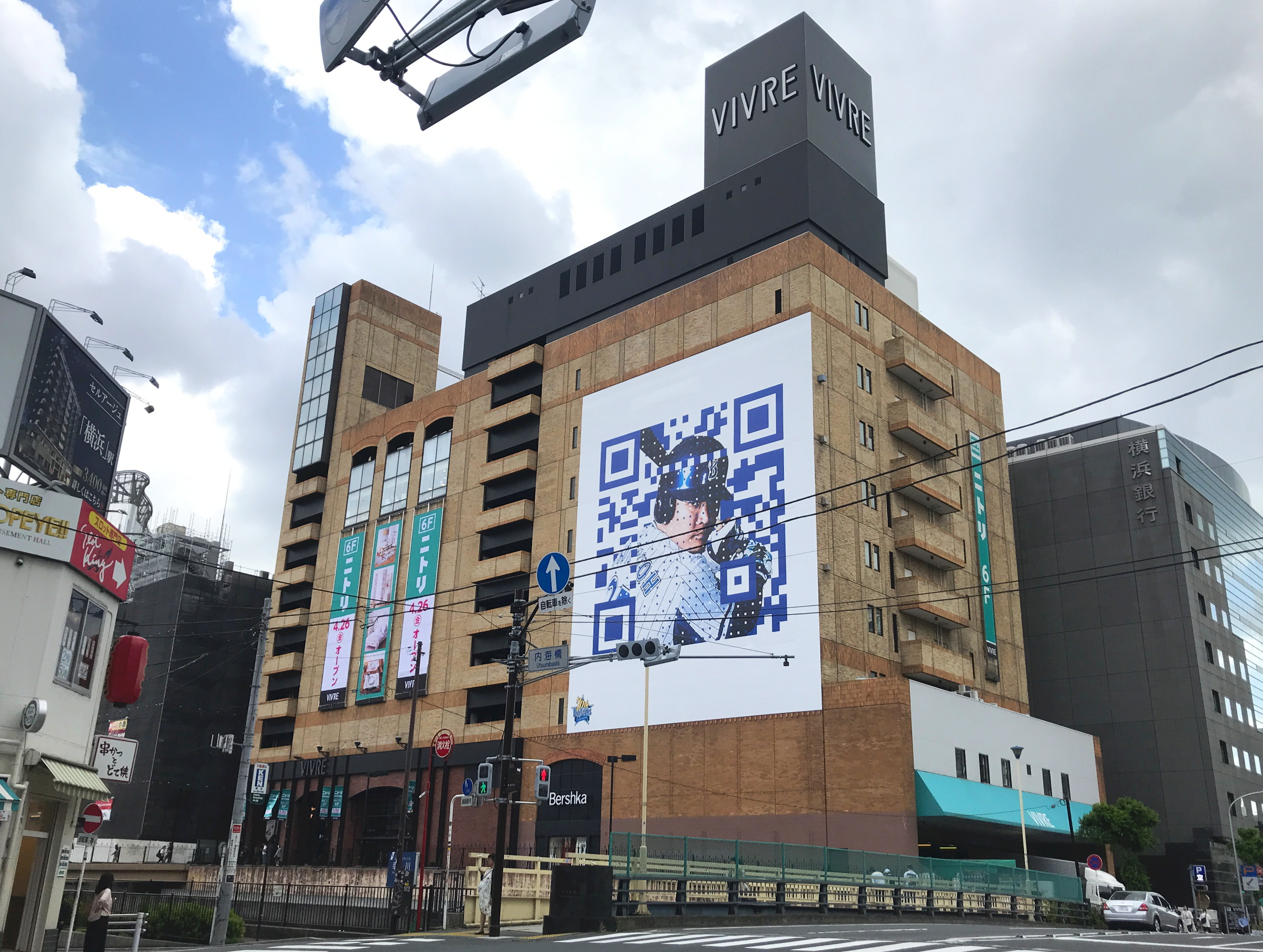 The building of ”Yokohama VIVRE”. The name of the building is ”Sotetsu Minamisaiwai No. 8 bldg".